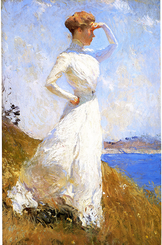 Summer (detail)